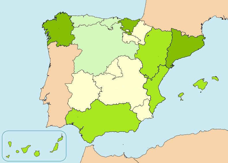 Historical nations and communities of Spain Dark green: Nations considered by having an statute of autonomy approved during II Spanish Republic. Green: Nations currently considered, but without an statute of autonomy during the II Republic. Light green: Historical communities.